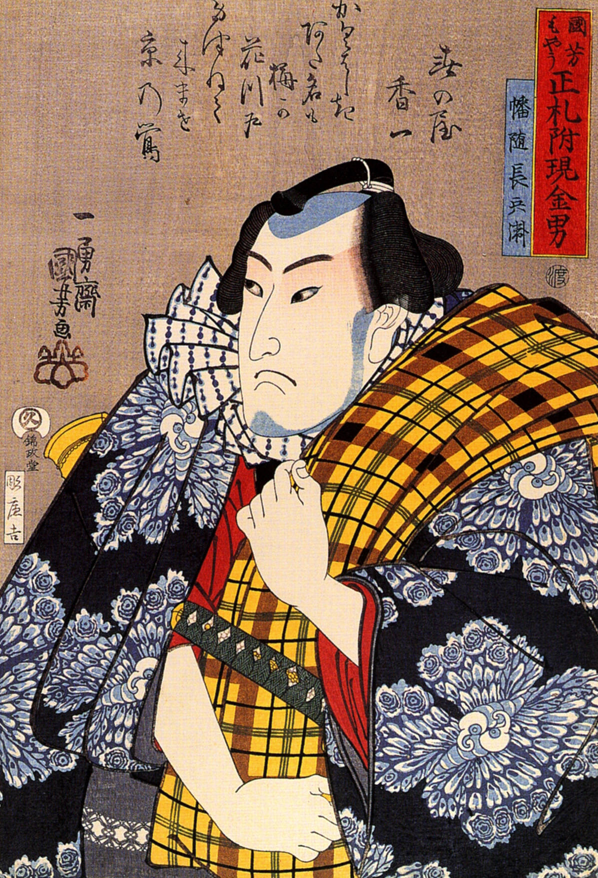 Banzui Chobei(播随長兵衛)or Banzuiin Chobei(幡随院長兵衛), He is one of the most celebrated Edo otokodate /street knght/ They lived by a strict code of honour which dictated that they always must assist townpeople in need. this theme is subject of a popular kabuki play. They are like the Japanese Robin Hoods.